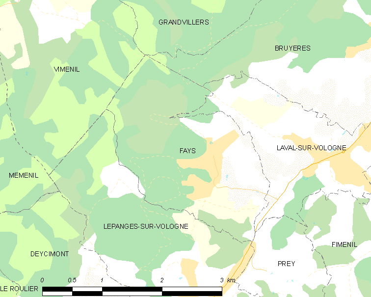 Map of French municipality Fays